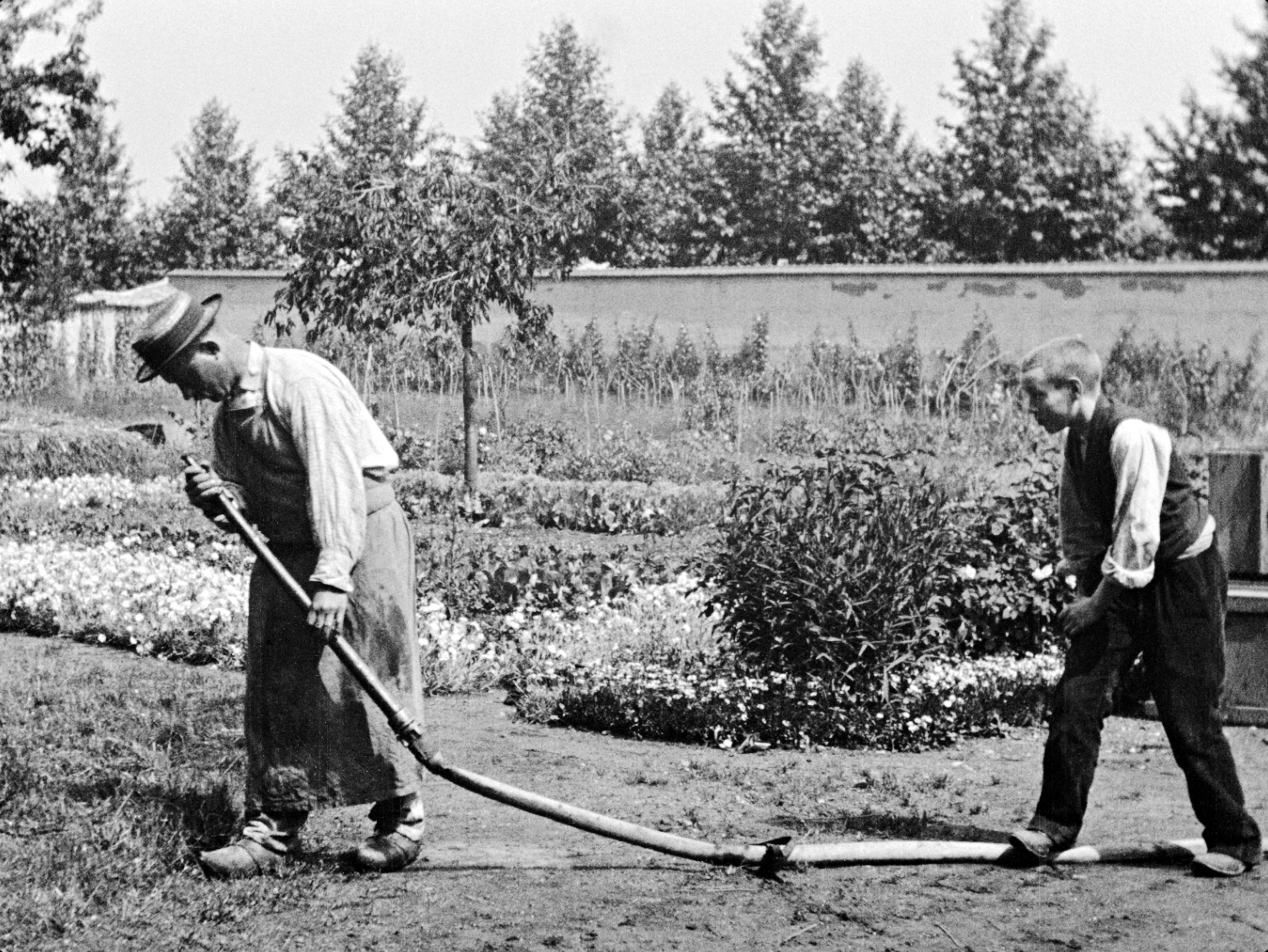 Screenshot of L'Arroseur Arrosé.